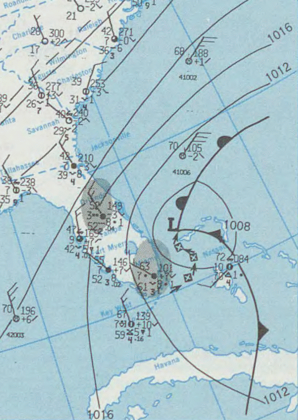 Surface weather analysis of a nor'easter (formerly Tropical Depression Nineteen) on 23 November 1984.